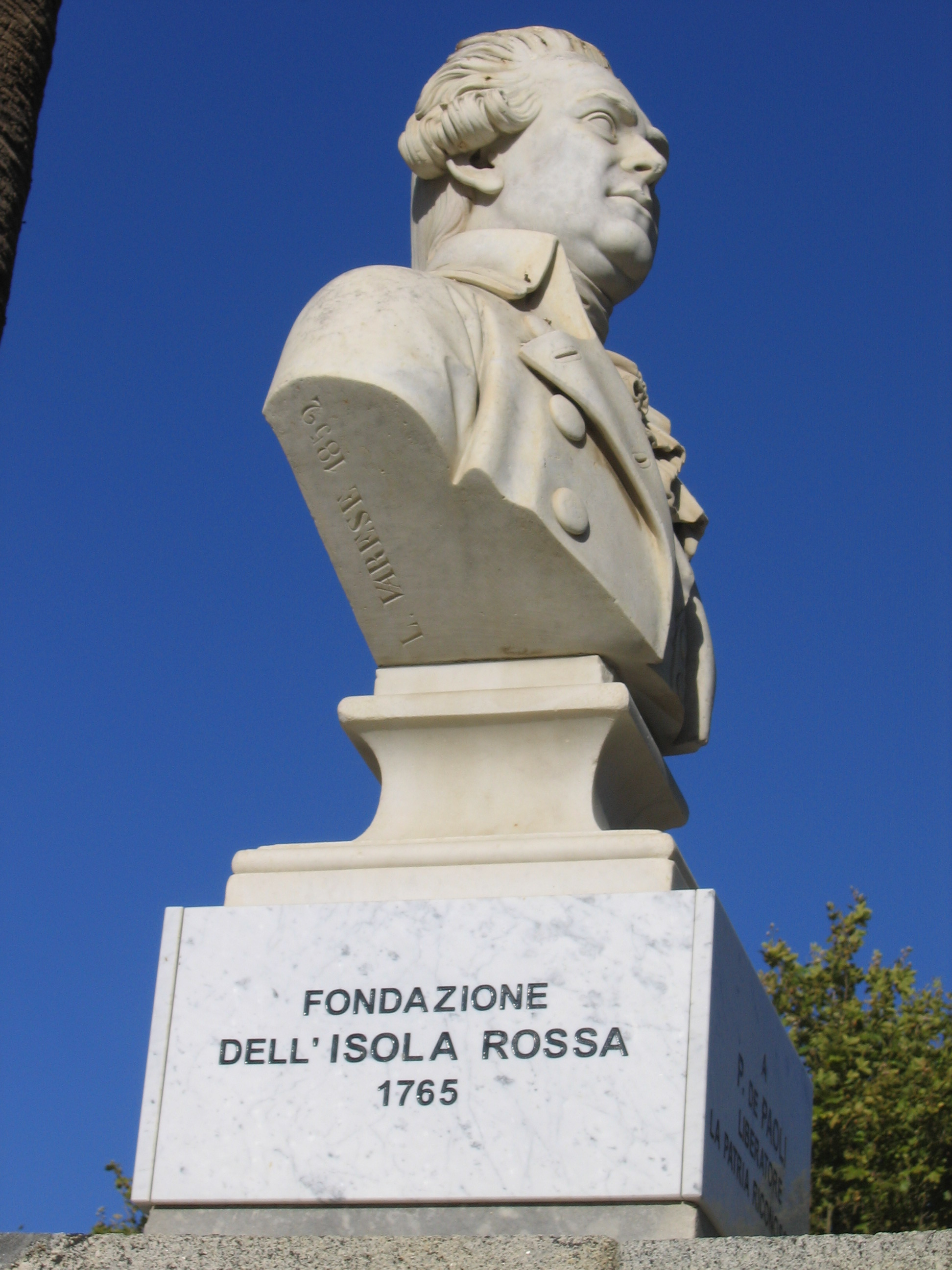 Sculpture of Pascal Paoli in l'Ile Rousse